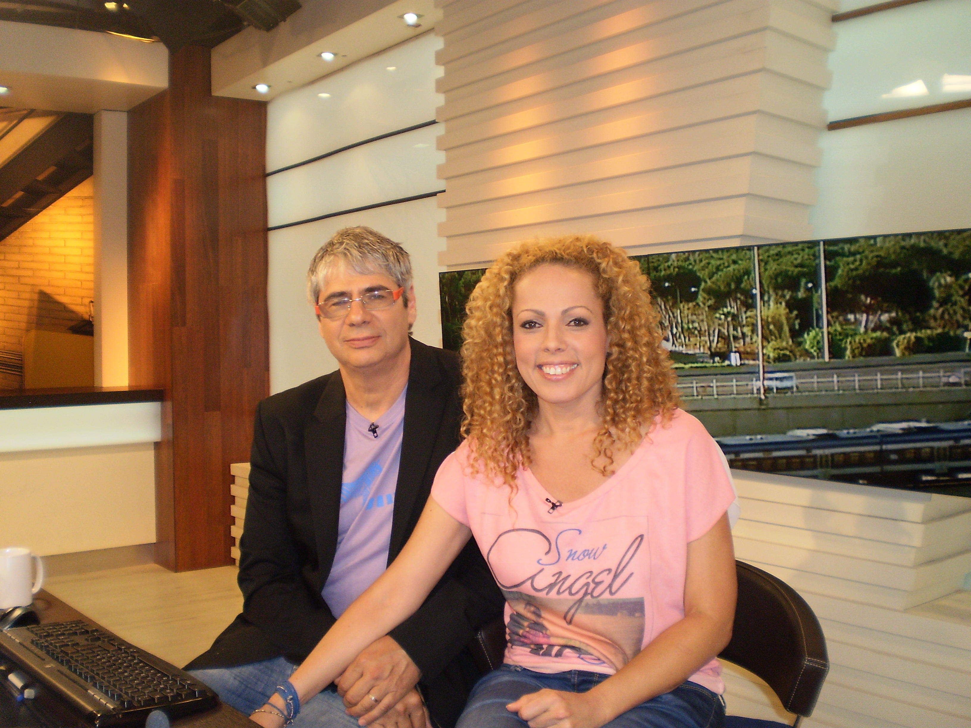 Orly Vilnai & Guy Maroz, at the "Orly VeGuy" studio